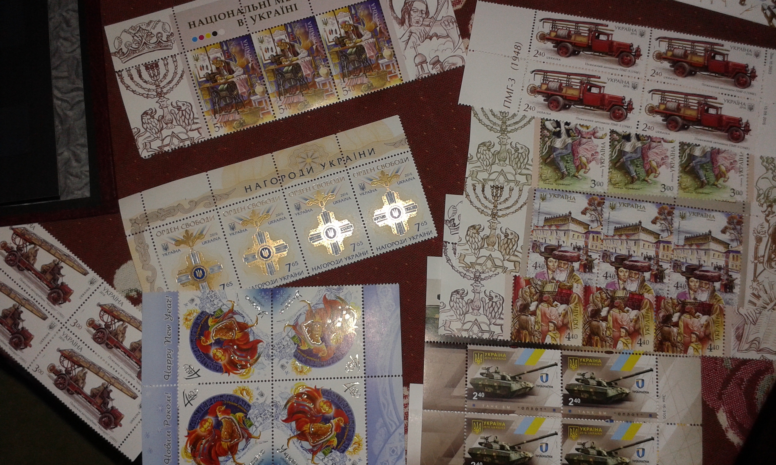 A few Ukrainian post stamps, 2016.